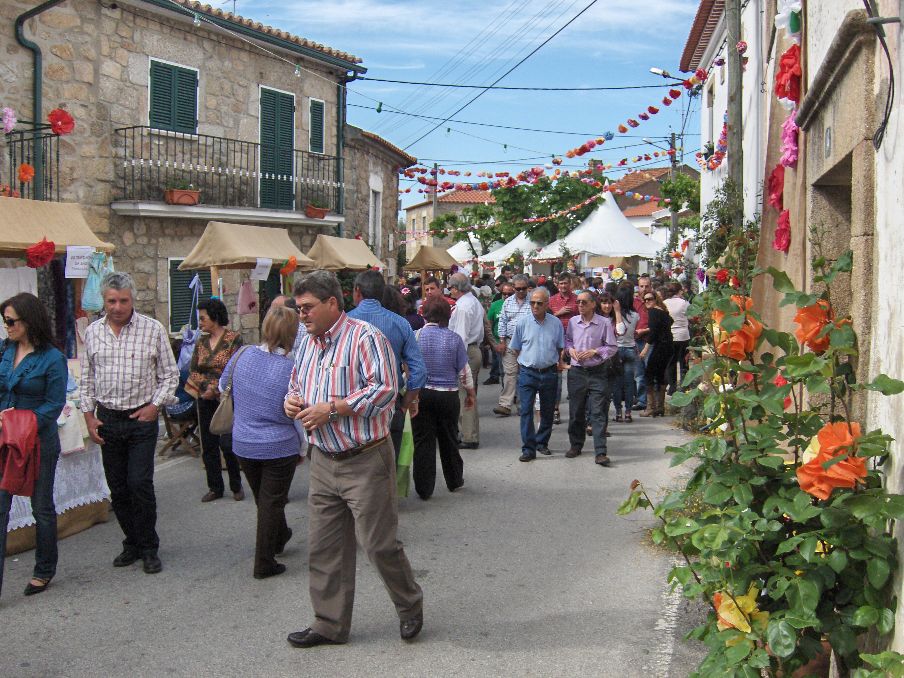 First Flower Festival in Aldeia de Santa Margarida